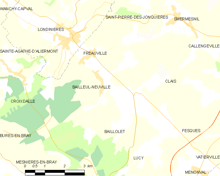 Map of French municipality Bailleul-Neuville